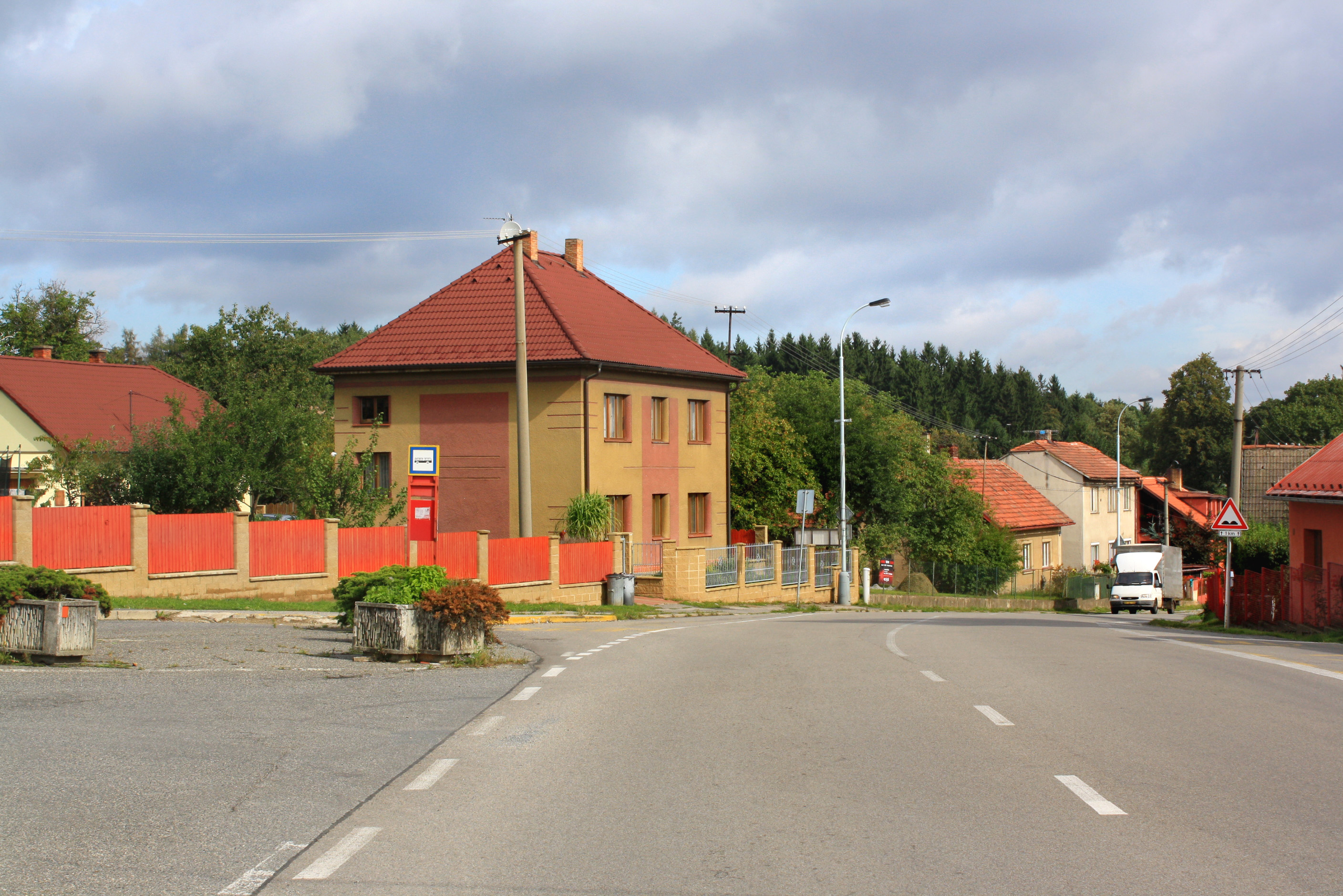 Pražská street in Radlík, part of Jílové u Prahy, Czech Republic